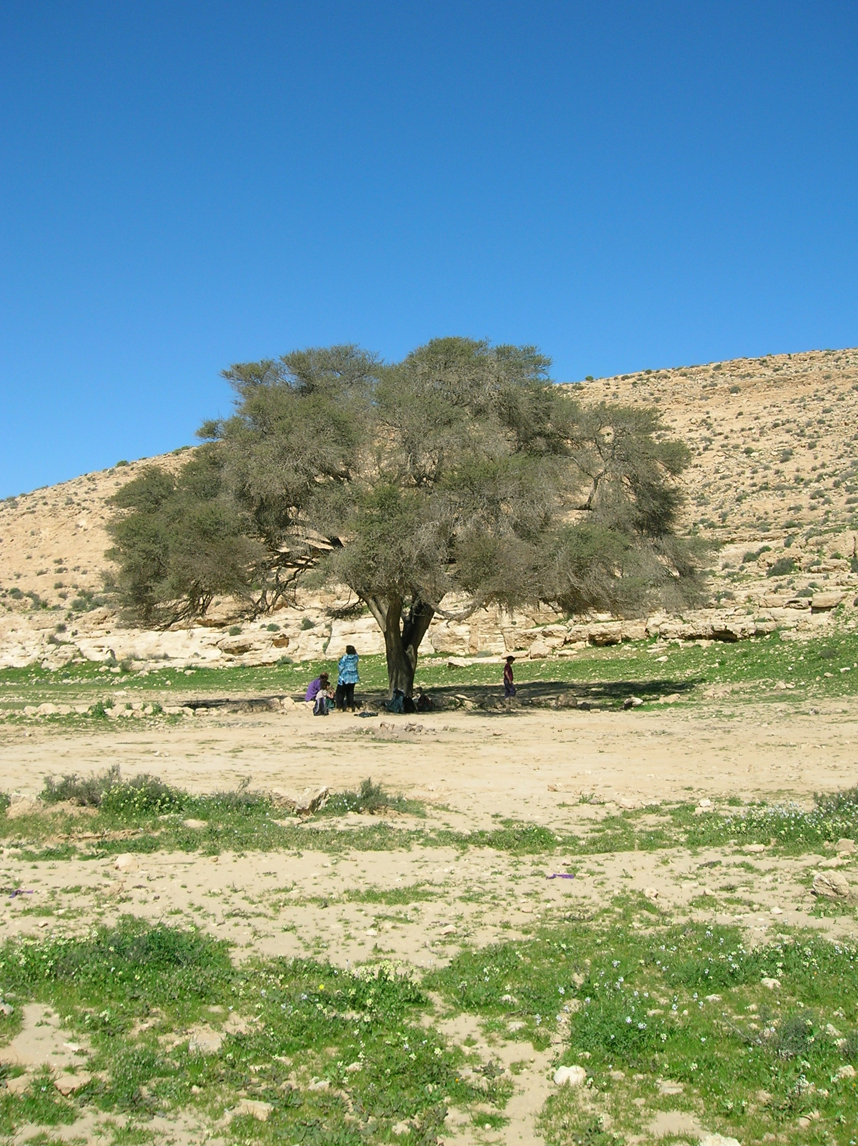 Tree in Nahal Noked